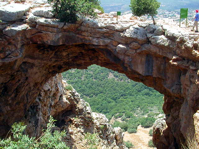 Rainbow Cave arch in the Galilee, Israel.